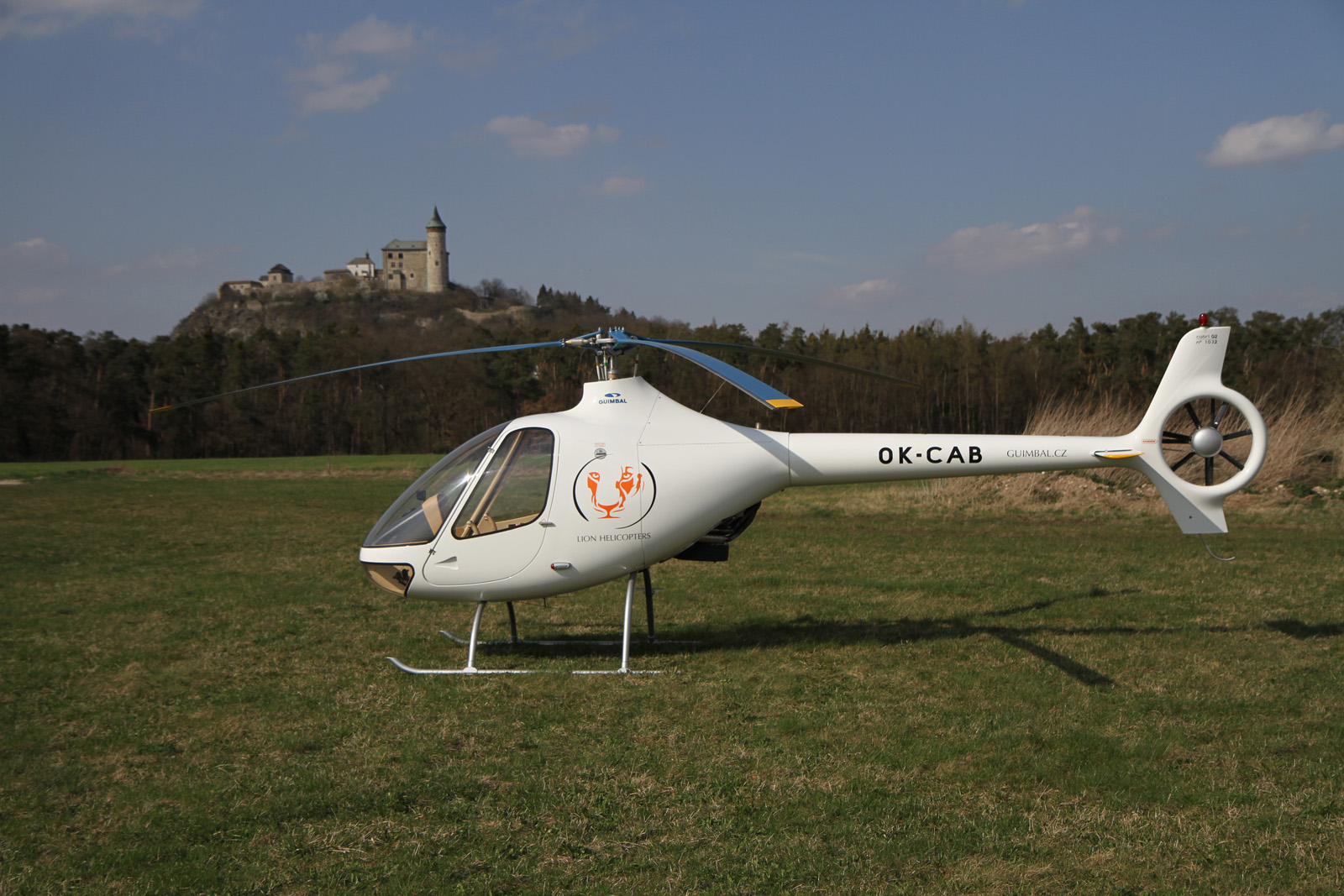 Helicopter Guimbal Cabri G2 - Tail number OK-CAB, S/N 1032